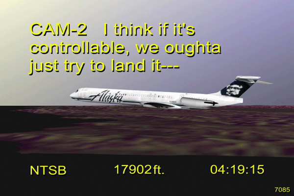 National Transportation Safety Board image of Alaska Airlines Flight 261 - It is a still of This video